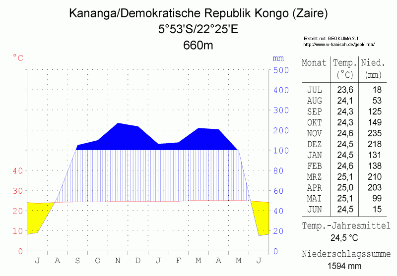 climate chart in the format by Walther and Lieth, metric, °Celsisus and millimeters, made with Geoklima 2.1